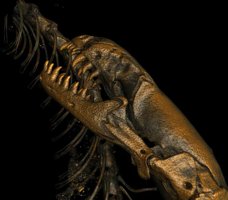 Skull of the worm-lizard Blanus (Squamata: Amphisbaenia: Blanidae) as reconstructed from CT (computed tomography) scans, for part of a research project into fossil worm lizards. By Nick Longrich.